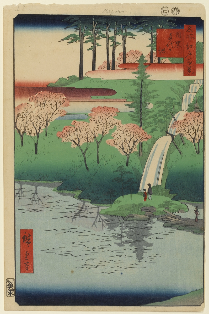 Part of the series One Hundred Famous Views of Edo, no. 023, part 1: Spring.